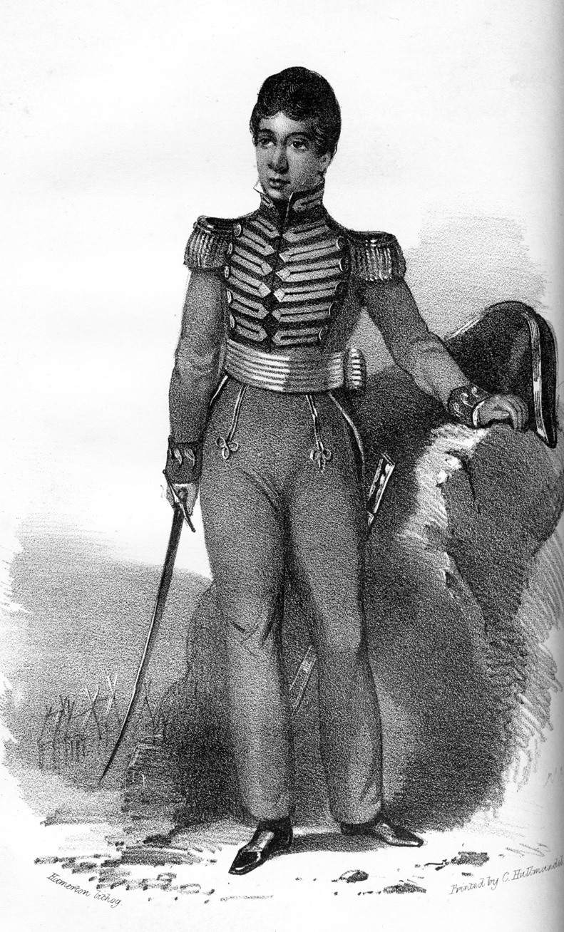 Radama, King of Madagascar. Original artist unknown.